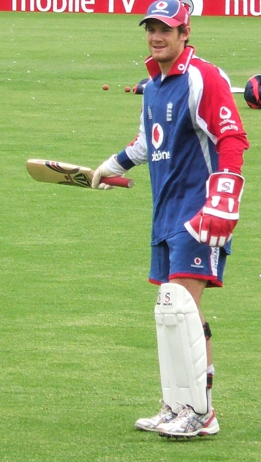 Chris Read batting practice at Adelaide Oval